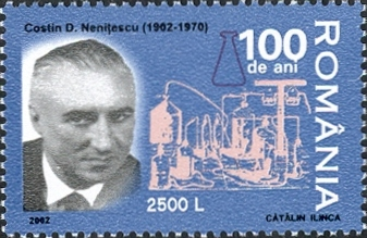 Stamps of Romania, 2002